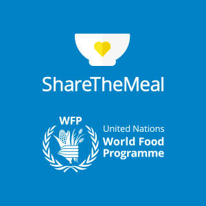 ShareTheMeal and WFP Logos